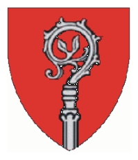 Coat of arms of the diocese of Eichstätt, self made version of the coat of arms of 12th century.